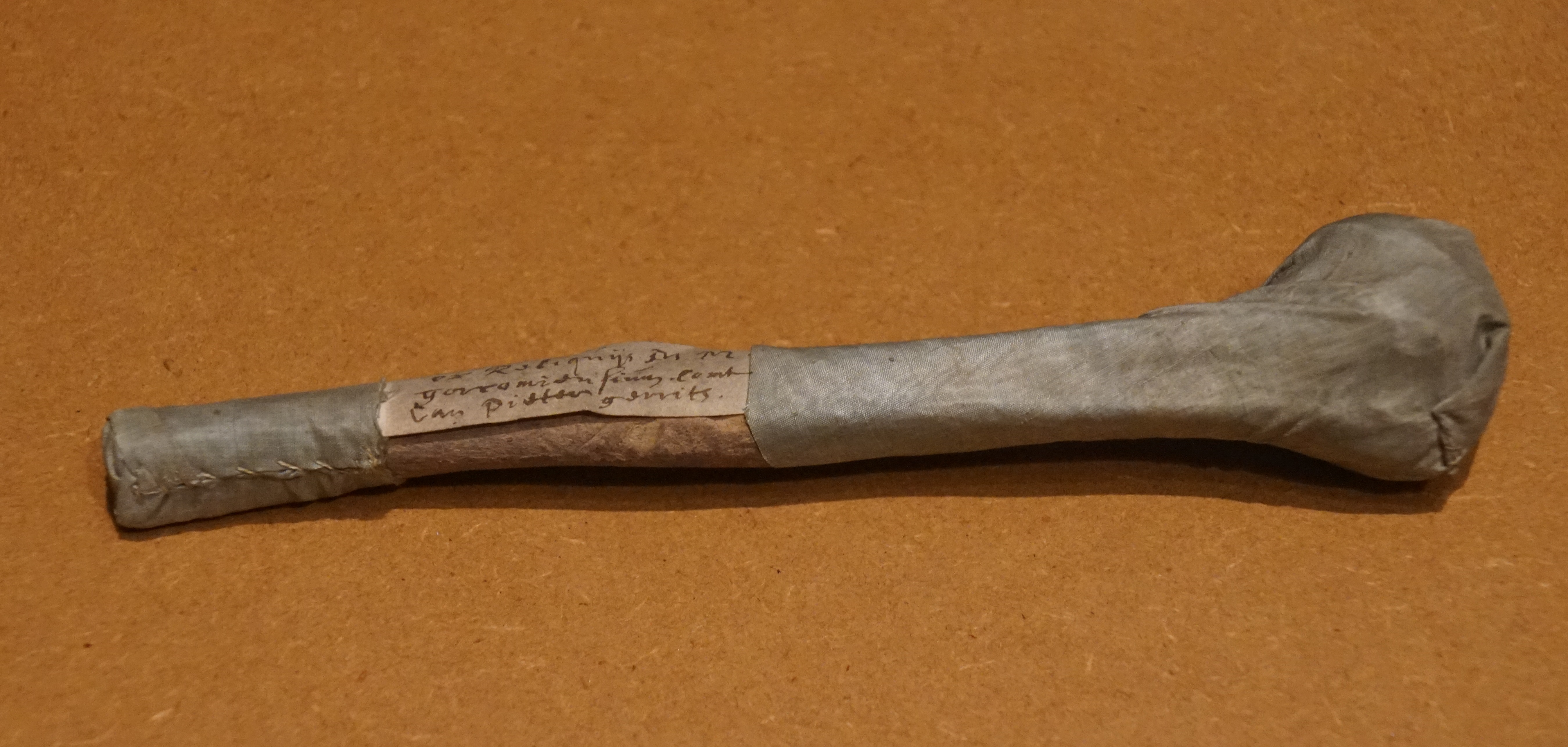 Piece of bone of a Gorinchem martyr, with a note by Pieter Gerrits. St Gertrudiskathedraal, Utrecht, The Netherlands. Photo taken during the exhibition "80 years war" in the Rijksmuseum, Amsterdam, The Netherlands.